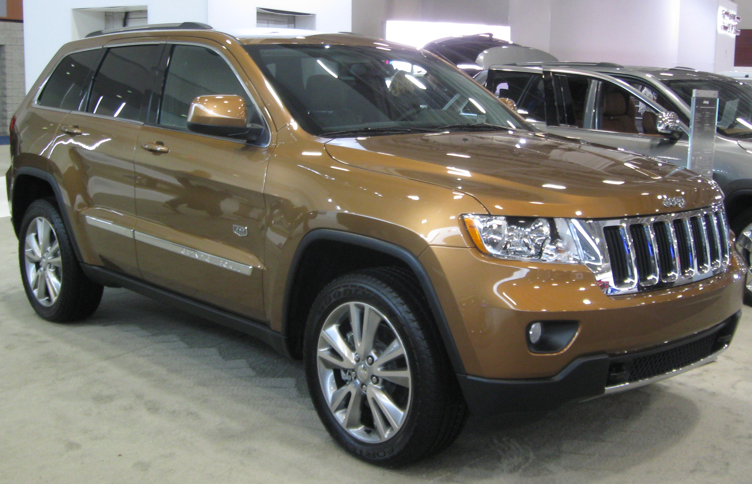 2011 Jeep Grand Cherokee 70th Anniversary Edition photographed at the 2011 Washington (D.C.) Auto Show.